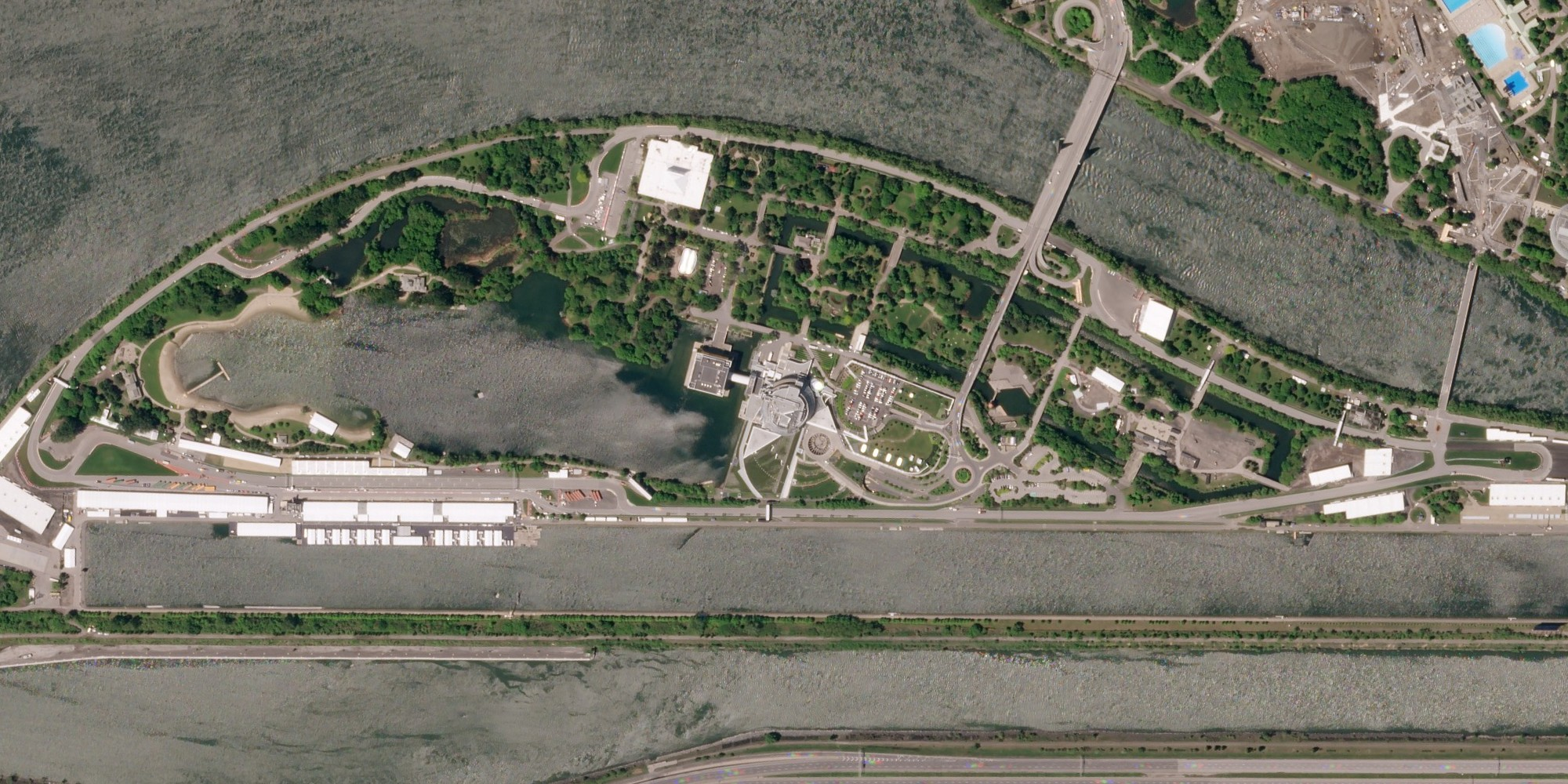 Circuit Gilles Villeneuve, a motor racing circuit| in Montreal, Quebec, Canada. It is the venue for the FIA| Formula One Canadian Grand Prix. Image taken on May 29, 2018, by a Planet Labs SkySat satellite.